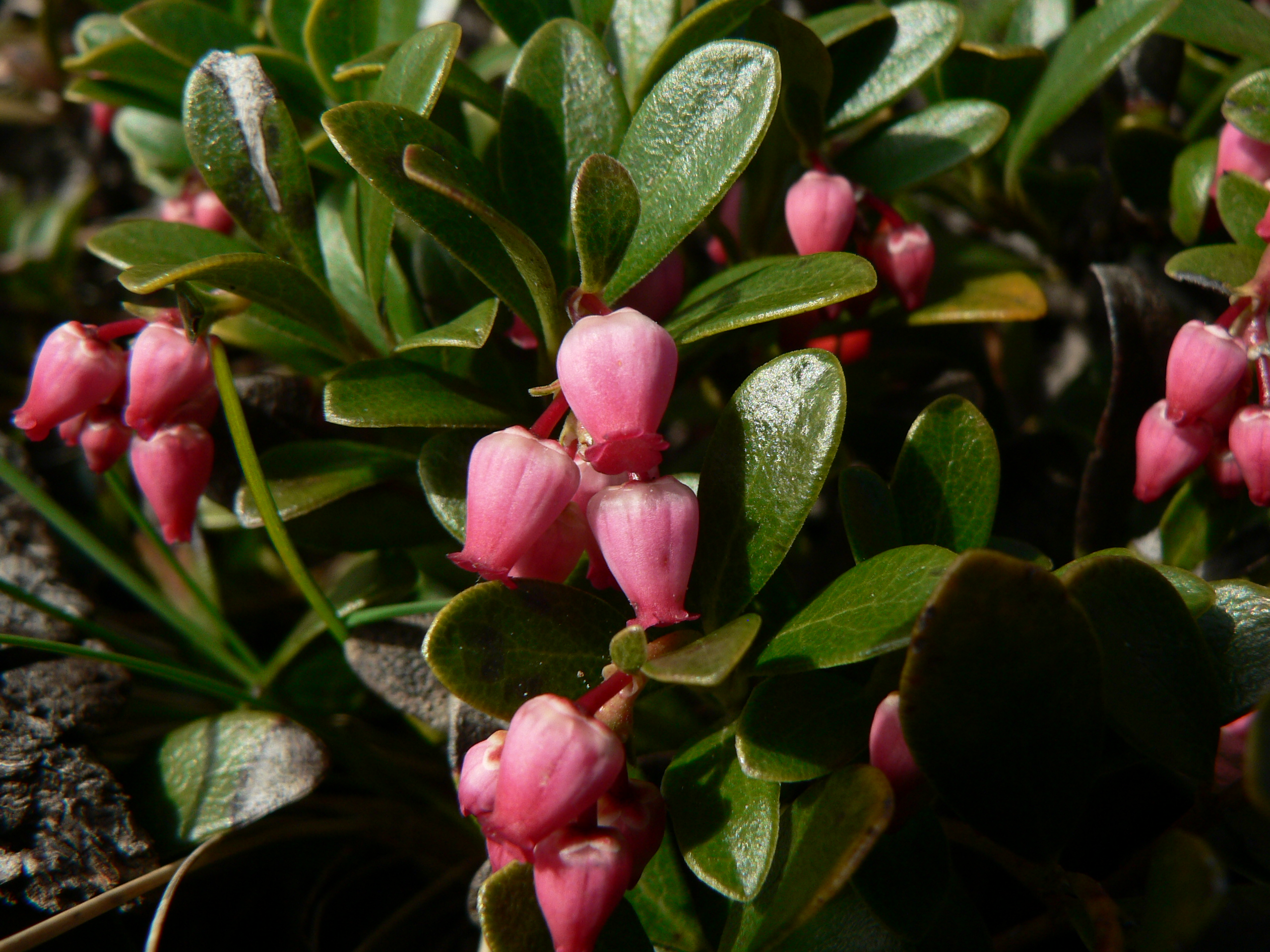 Kinnikinnick